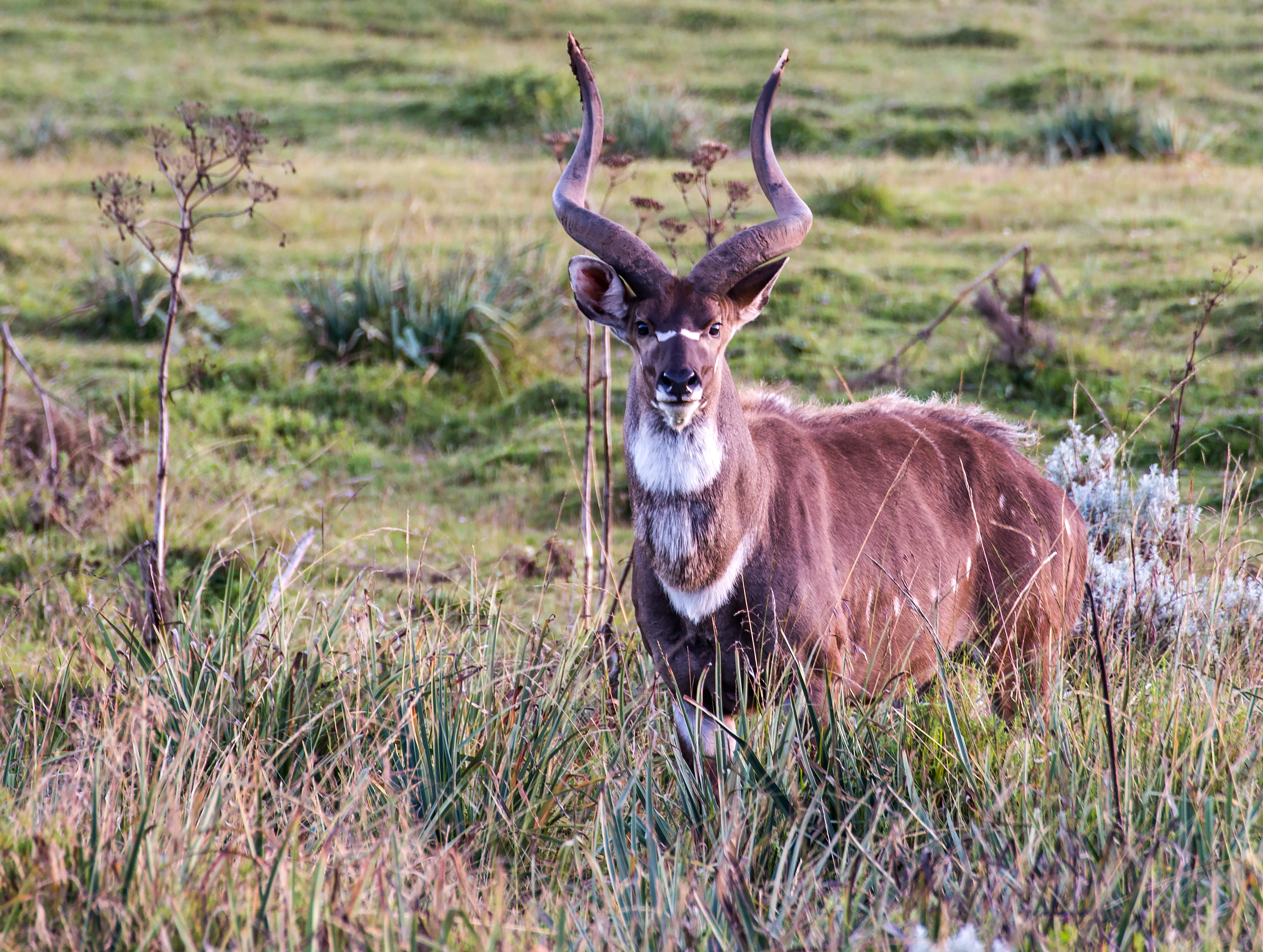 Mountain nyala in Ethiopia